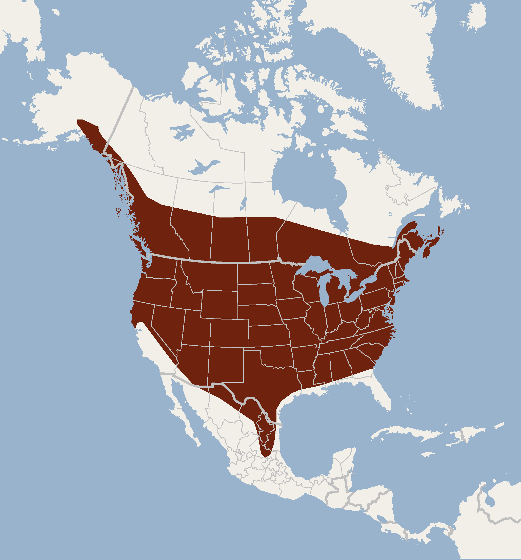 Geographical distribution of Lasionycteris noctivagans according to Kays & Wilson, 2009